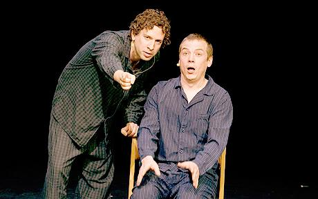 Pajama Men, Mark Chavez and Shenoah Allen during one of their many comedic bits.